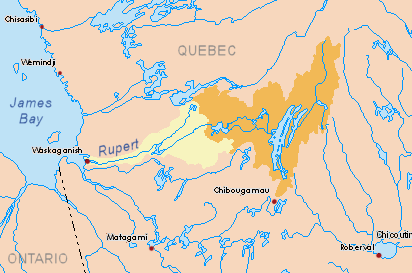 Drainage basin of the Rupert River, Quebec, Canada. See also: File:Rupert_map.png Orange and yellow: original basin. Orange: diverted basin to Eastmain and La Grande Rivers since 2010.